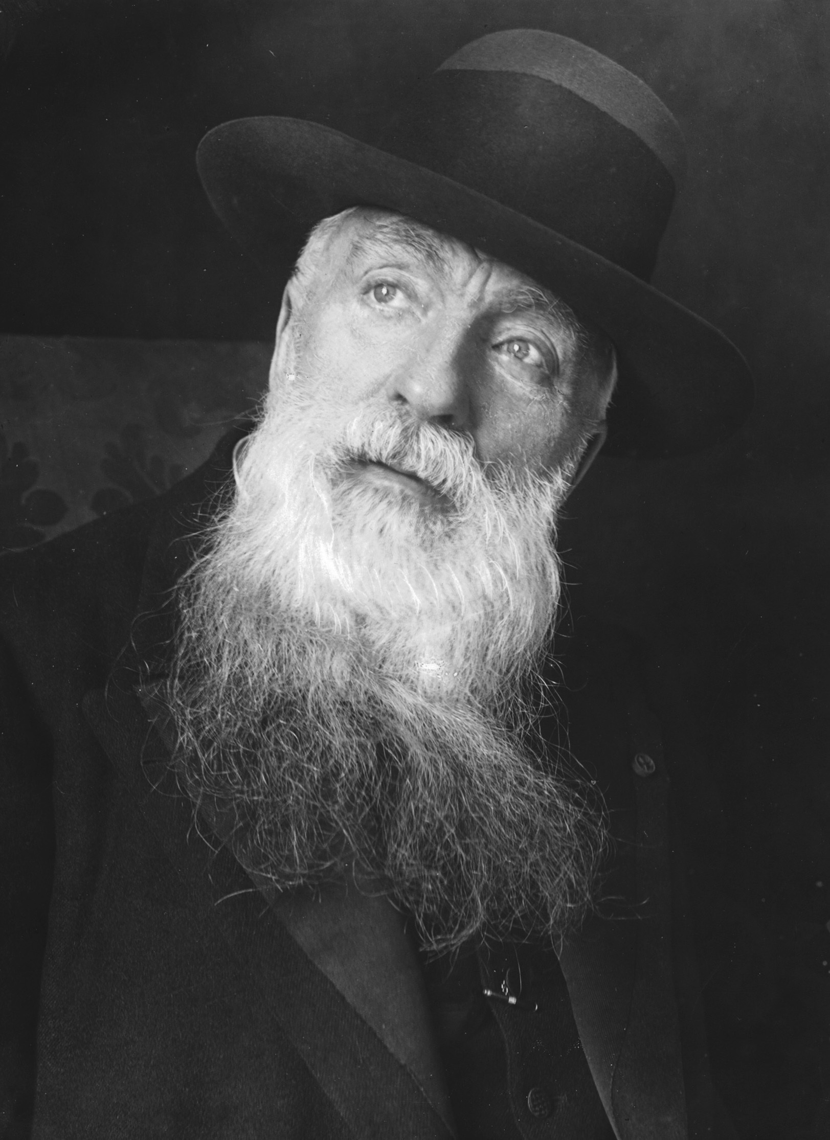 August Roden. Photo by Pierre Choumoff